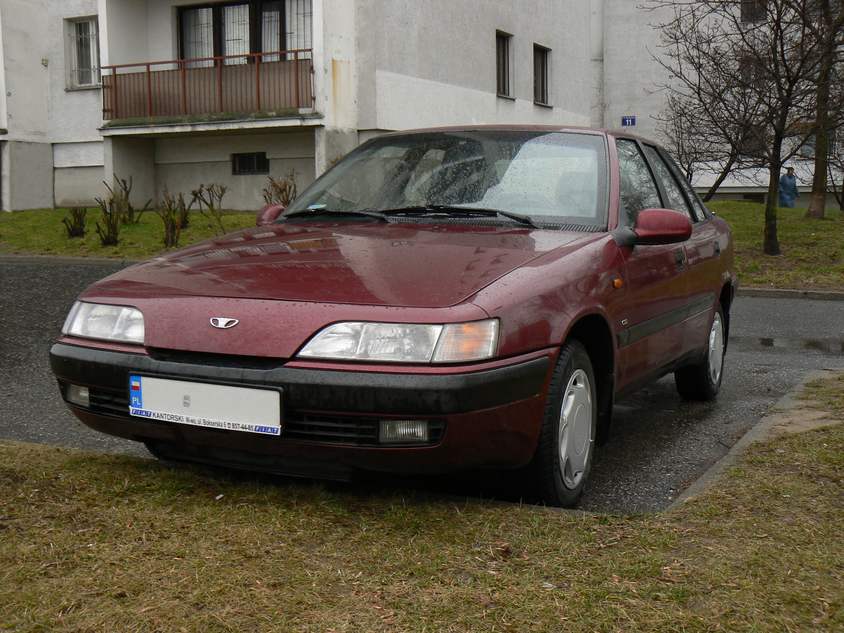 Daewoo Espero, photographed in Warsaw, Poland.